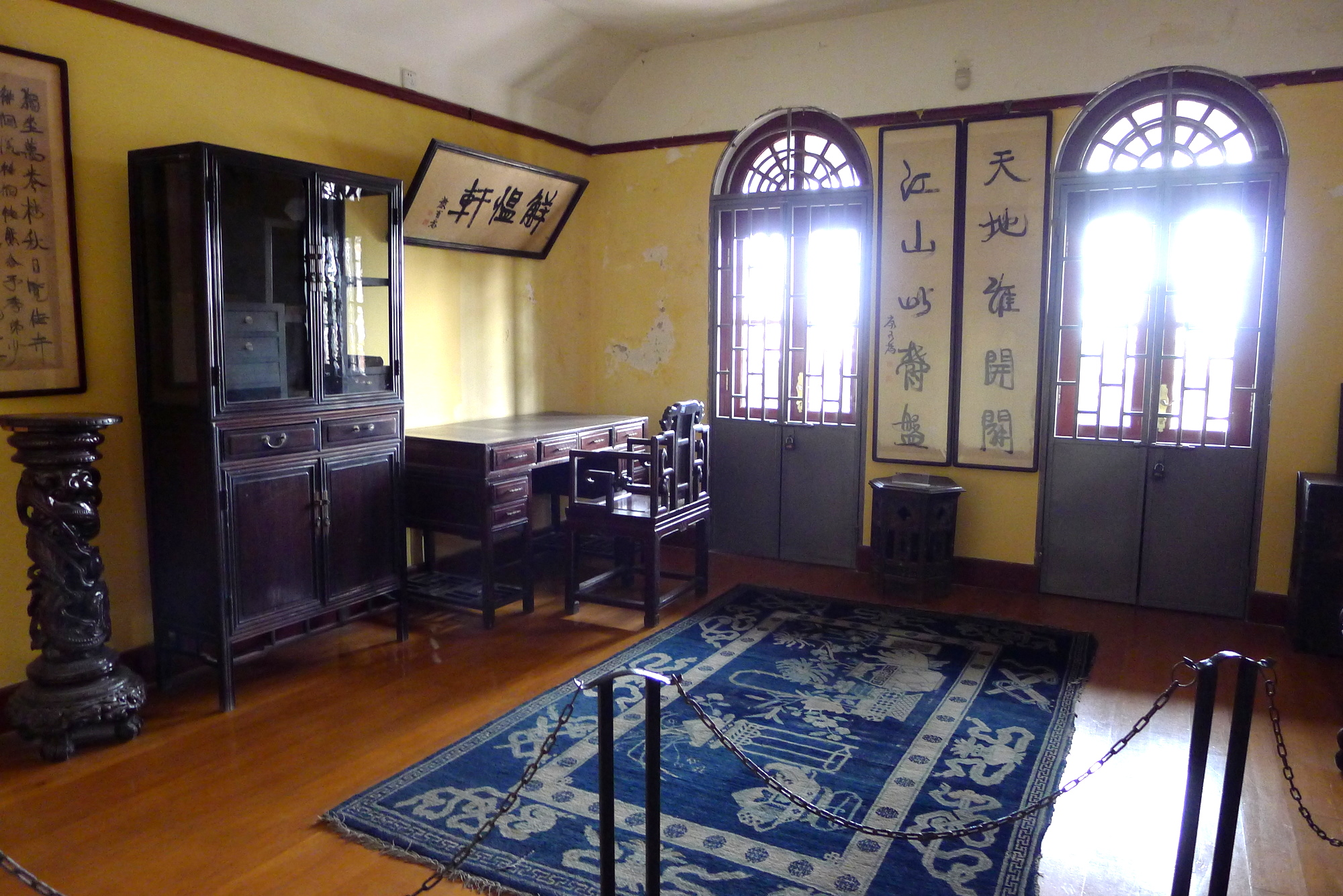 Kan Youwei's study